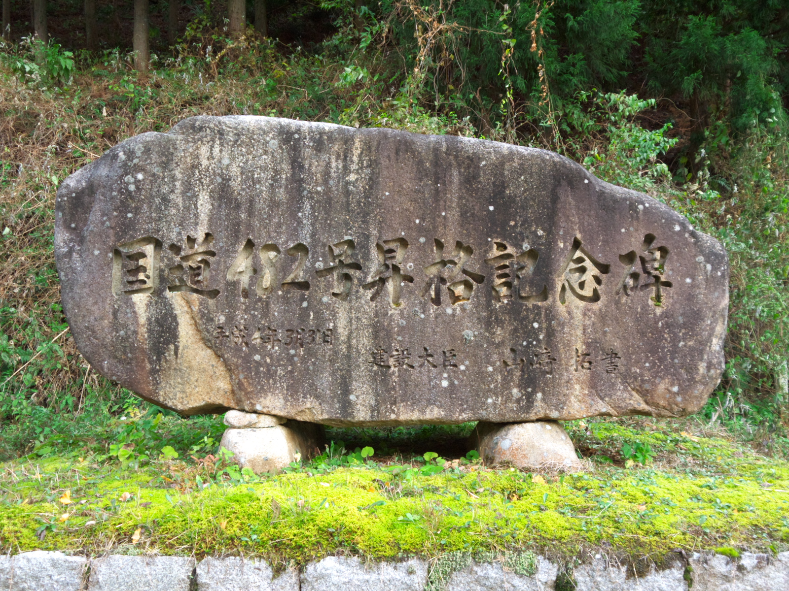 Monument of Promotion to Japan National Route 482 in Tottori, Tottori prefecture. Written by Taku Yamasaki.